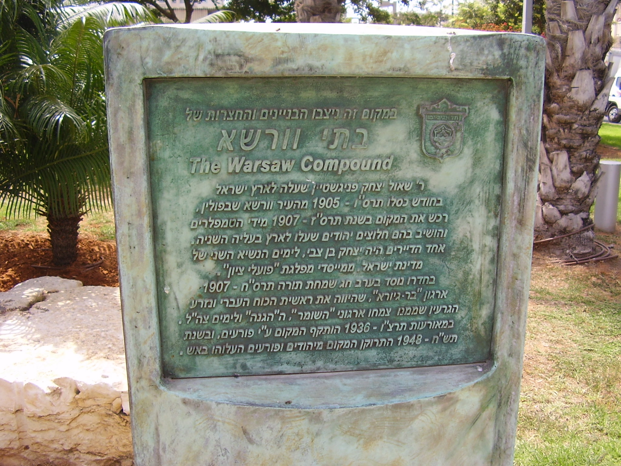 memorial to warsaw compound in tel aviv, in front of the building of Tel Aviv District Israel Police, 18 Shalma road (corner of Derech Kibuts Galuyot)